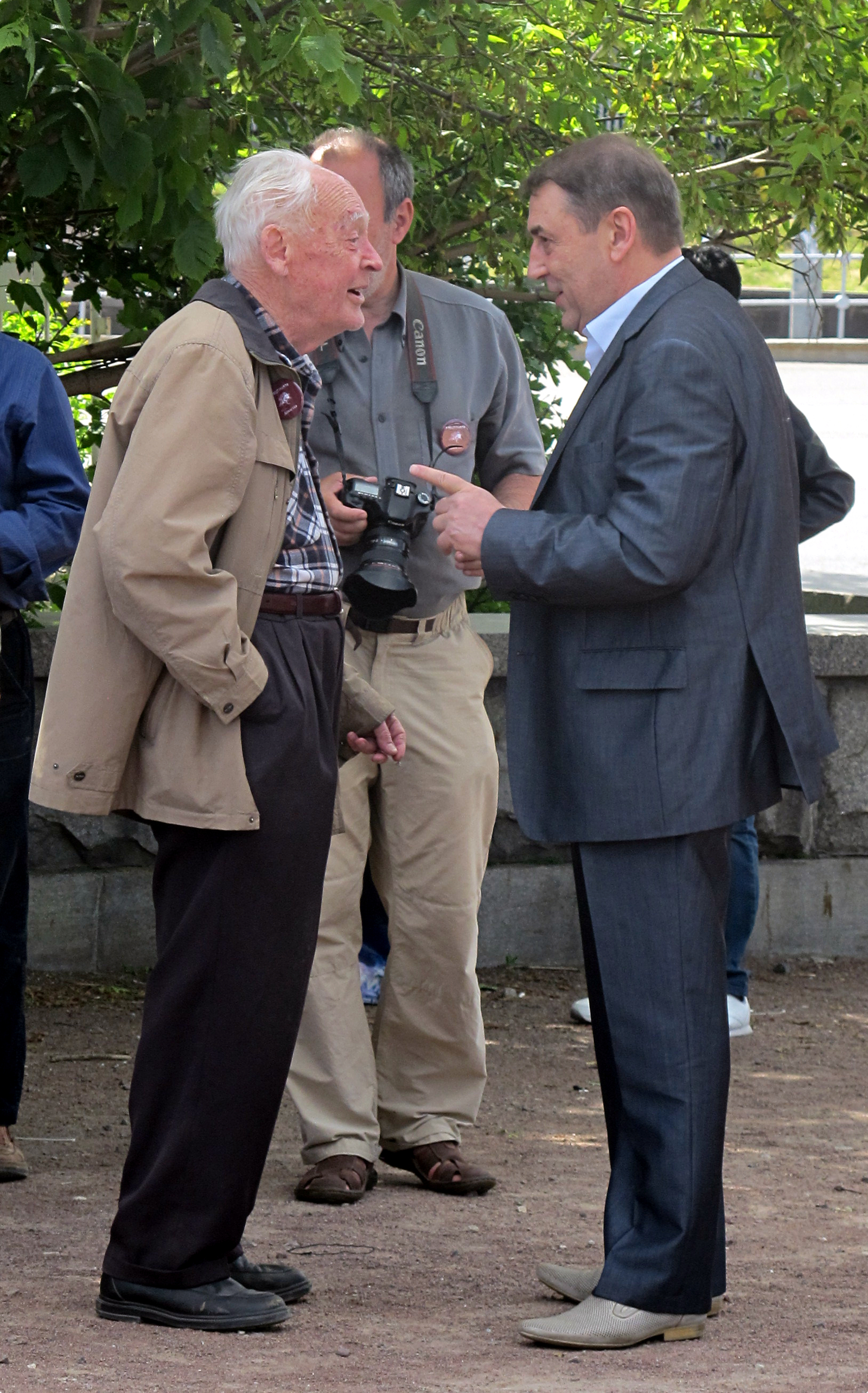 Rally for science and education (Moscow; 2015-06-06)